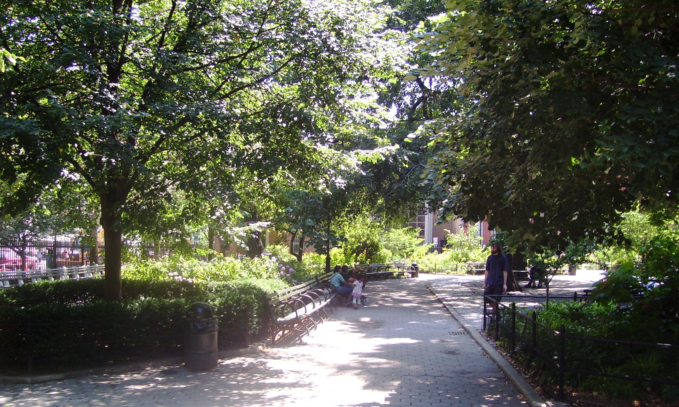 A walkway in the central oval of the western portion of Stuyvesant Square in Manhattan, New York City in the summer. (The park is bisected by Second Avenue.)